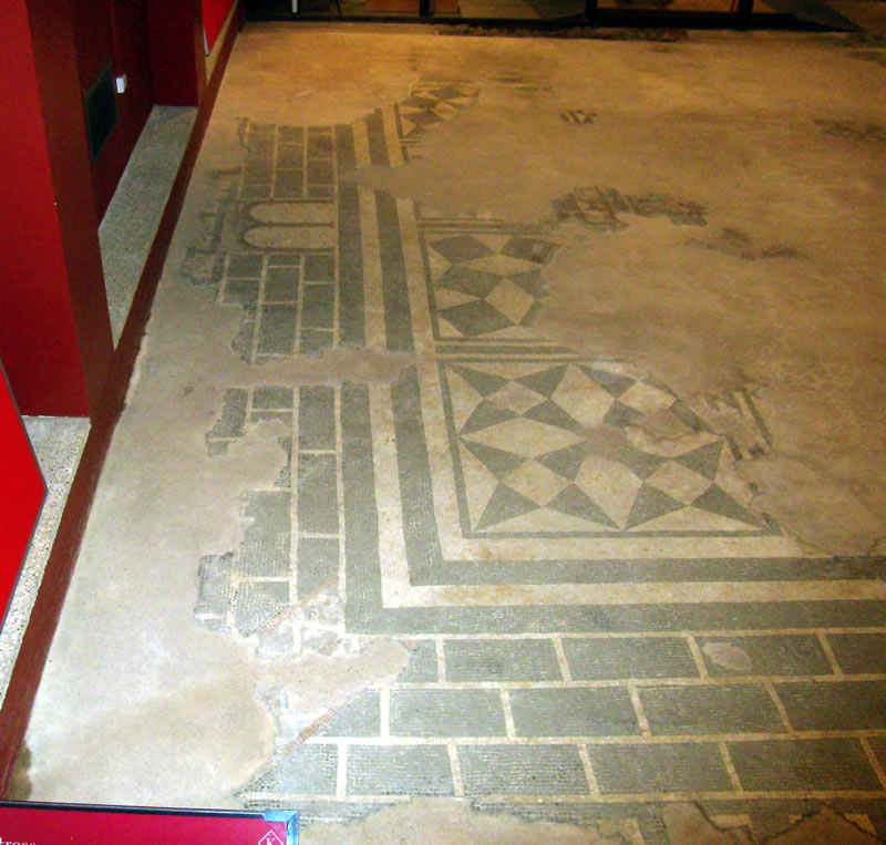 Fishbourne, Roman palace, mosaic from room N7, first century AD